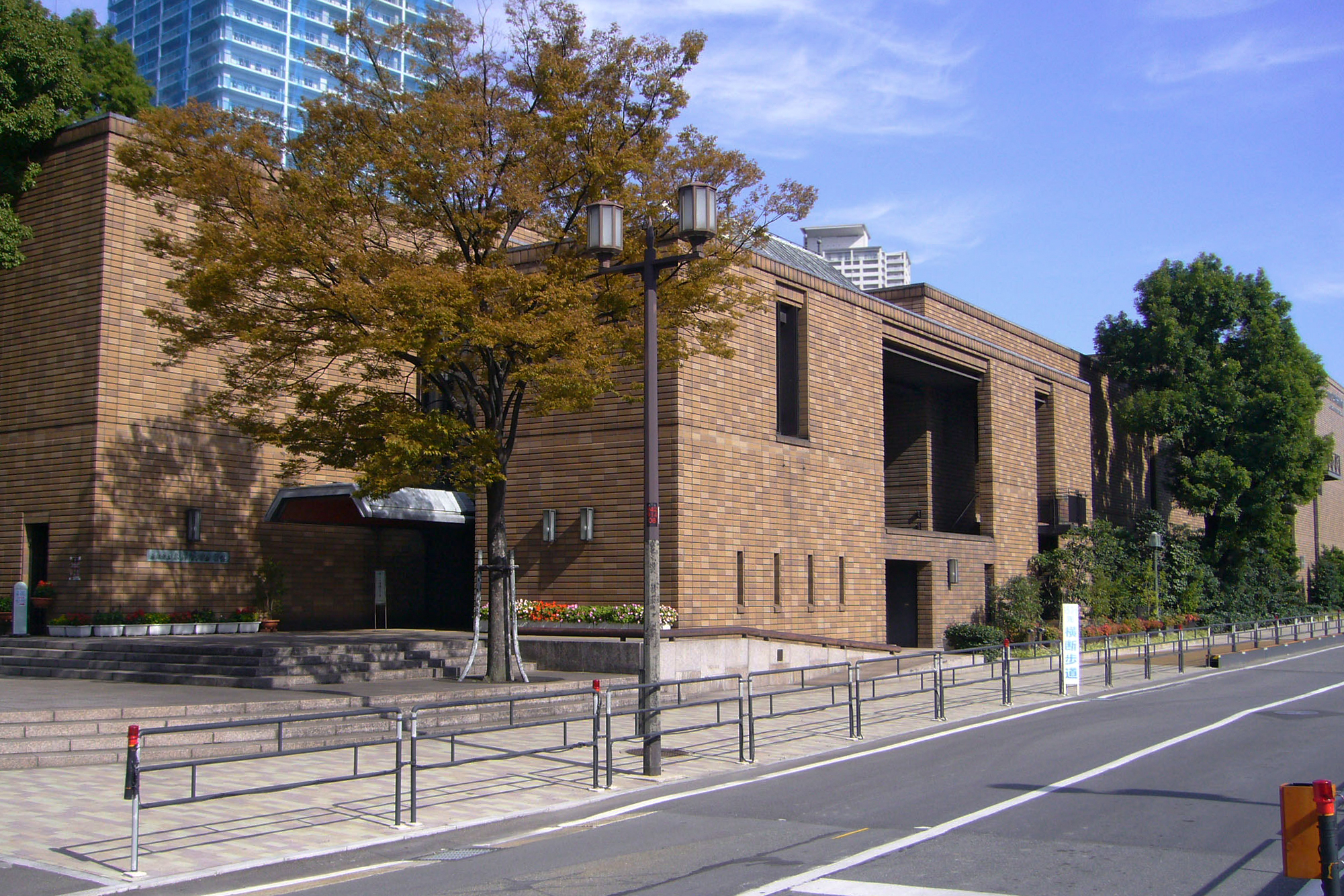 The Museum of Oriental Ceramics, Osaka in Nakanoshima, Kita-ku, Osaka, Osaka prefecture, Japan